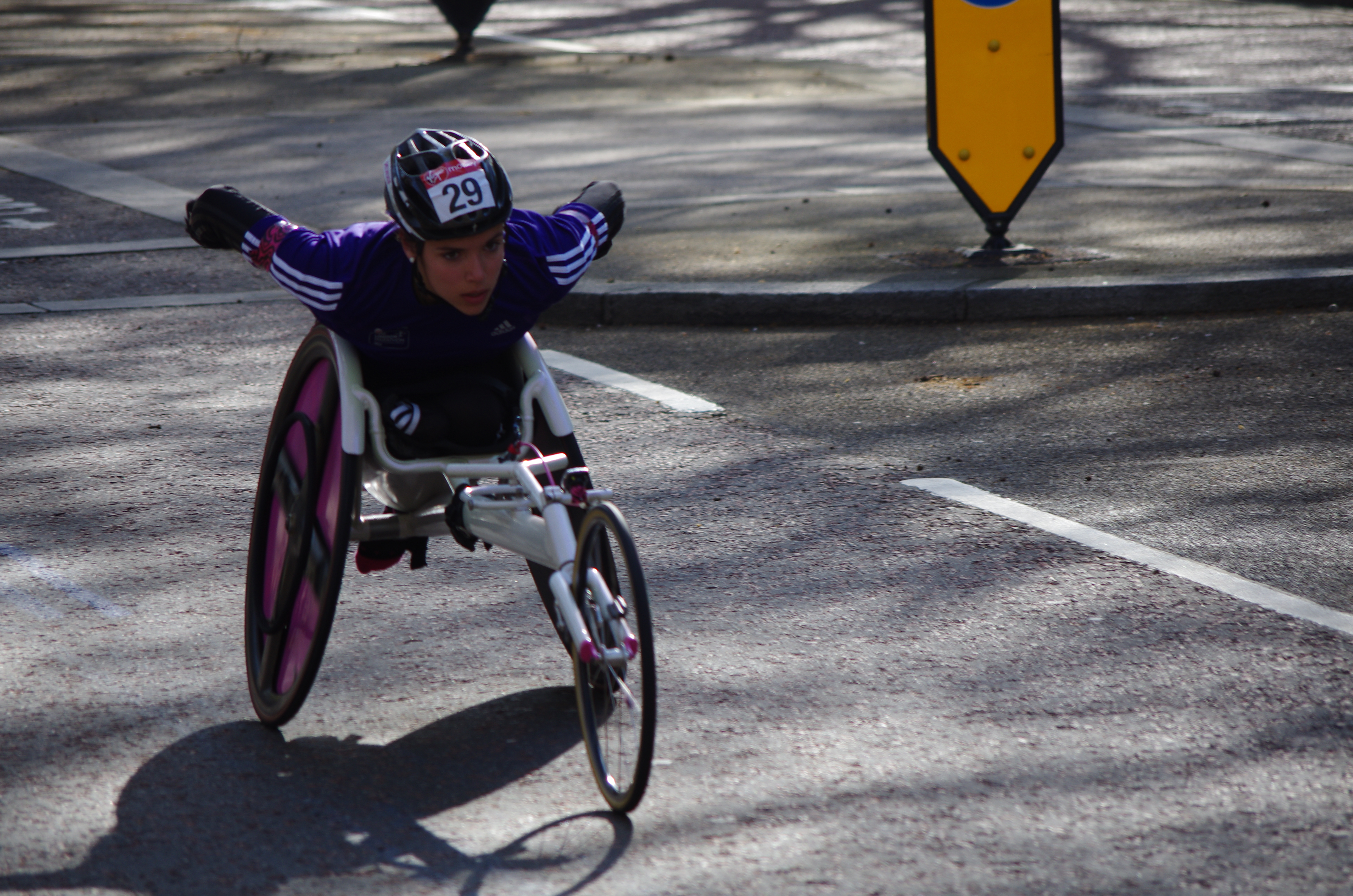 The Virgin Money Giving Mini London Marathon 22 April 2012. Jade Jones, winner of the Girls Under 17 wheelchair competition in 12:59